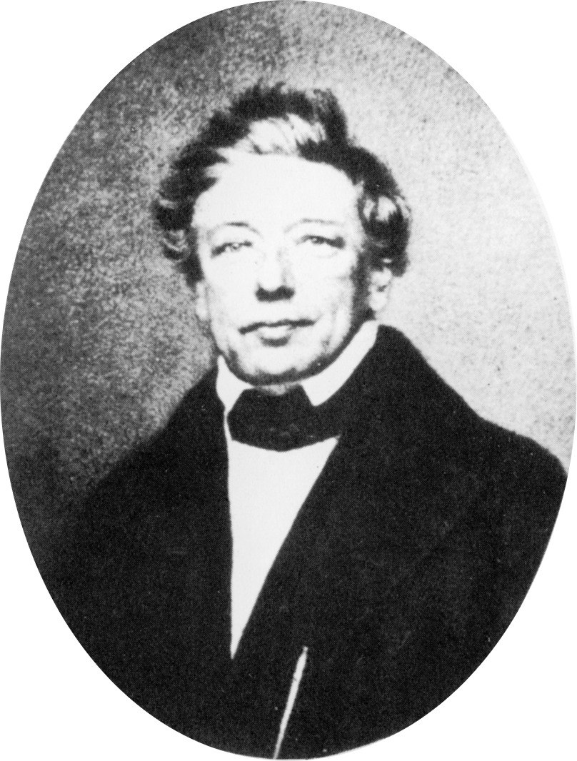 German architect Ferdinand Wilhelm Brune, picture taken around 1850